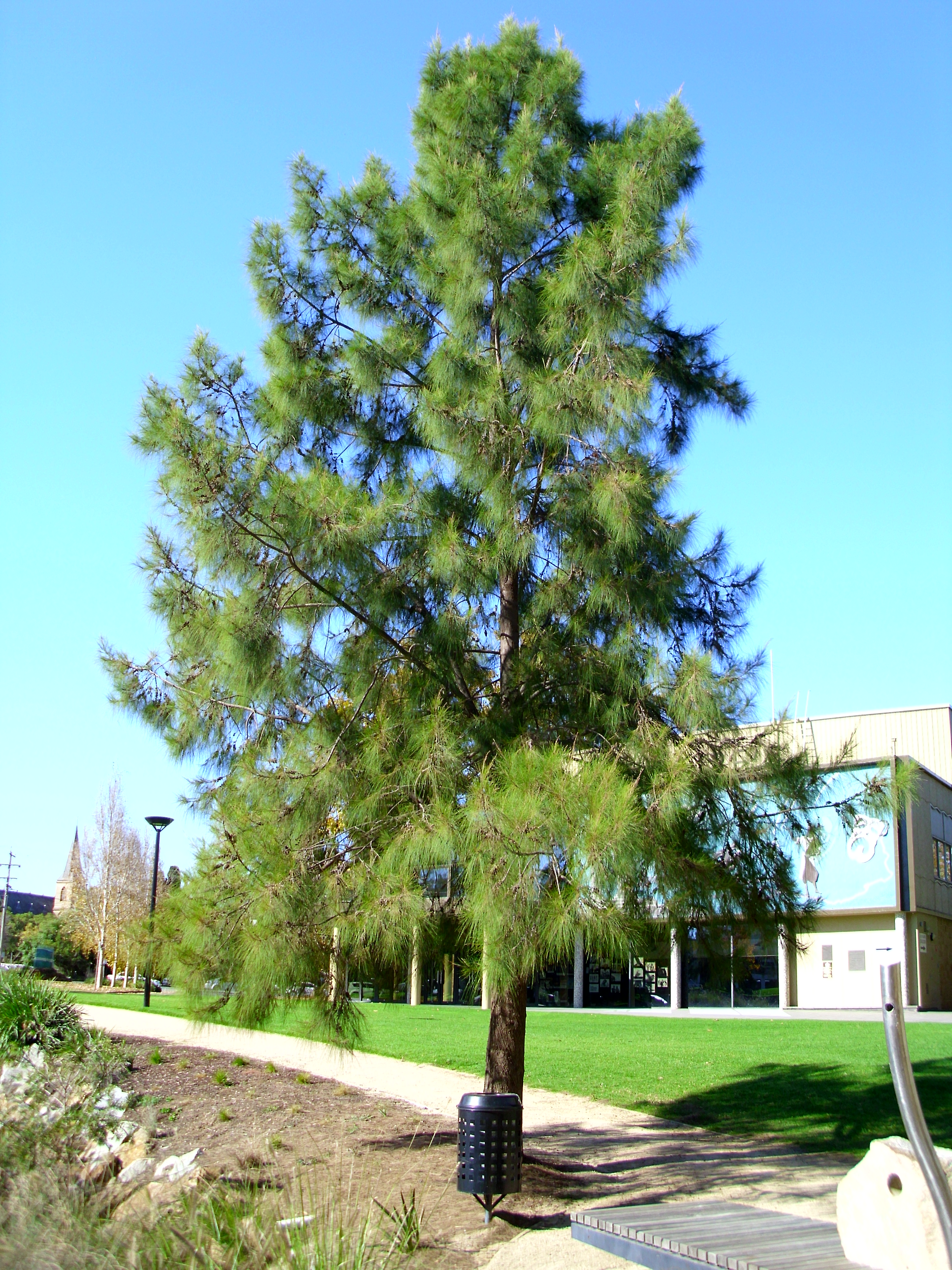 Casuarina cunninghamiana growing next to the Wollundry Lagoon in Wagga Wagga, New South Wales, Australia.